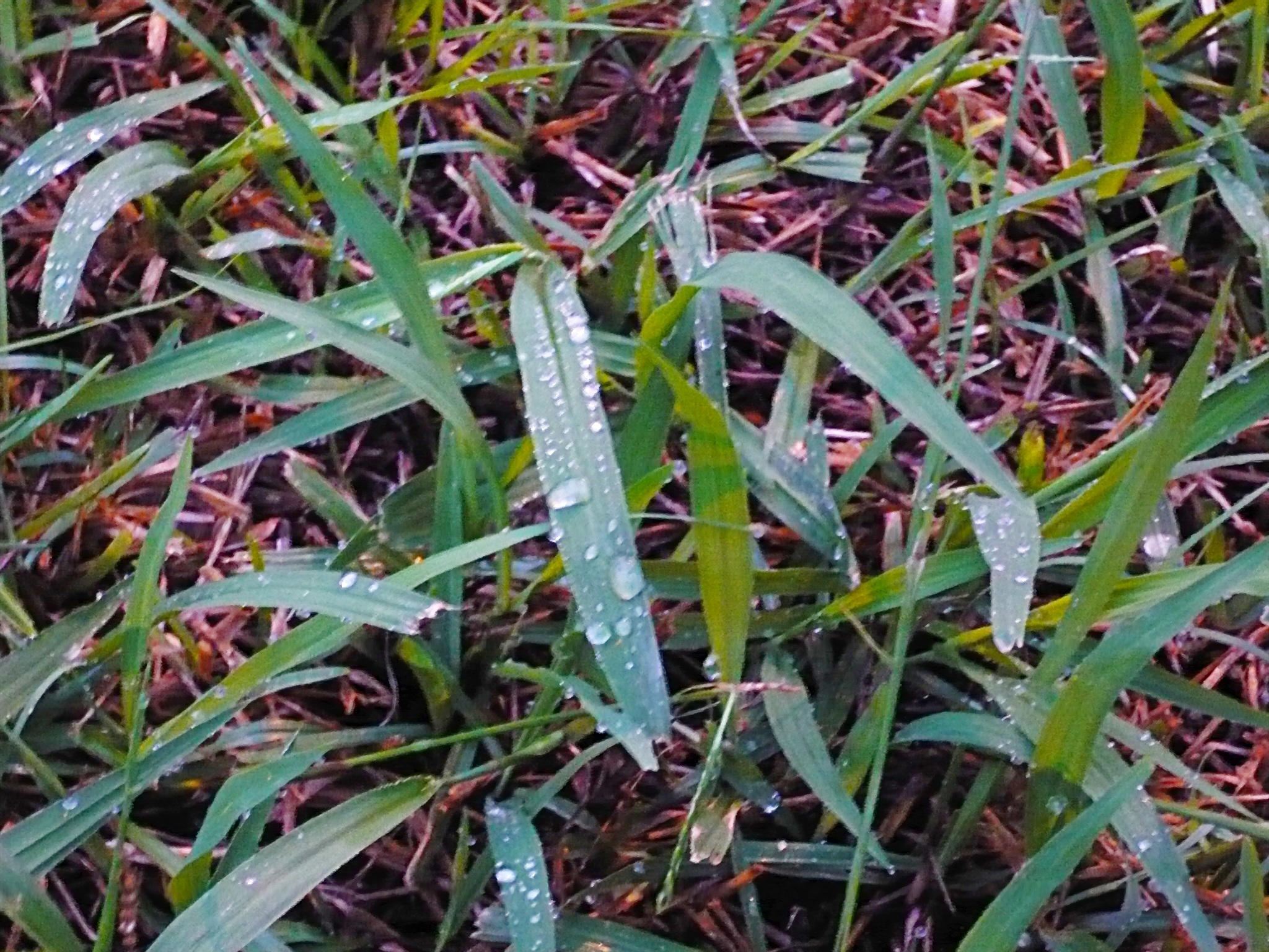 Sorghum halepense, also known as Johnson grass